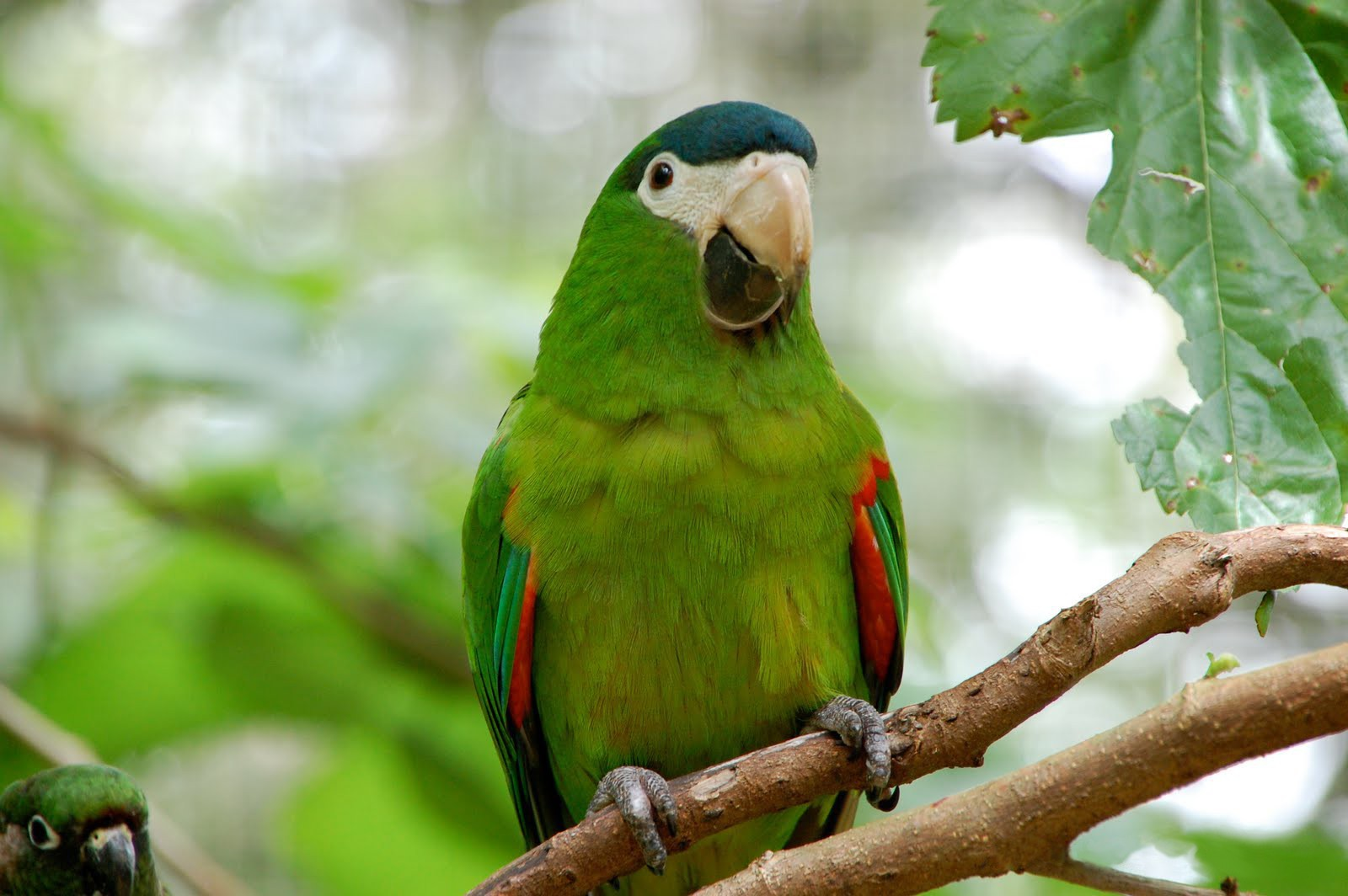 A Red-shouldered Macaw at Parque das Aves, Foz do Iguaçu, Brazil. This subspecies is also know at the Noble Macaw.